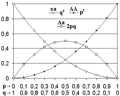 Hardy-Weinberg principle